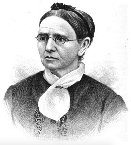 Mehitable E “Auntie” Owen Woods. Born in Georgia, Chittenden County, Vermont, September 28, 1813. From an 1890 publication.